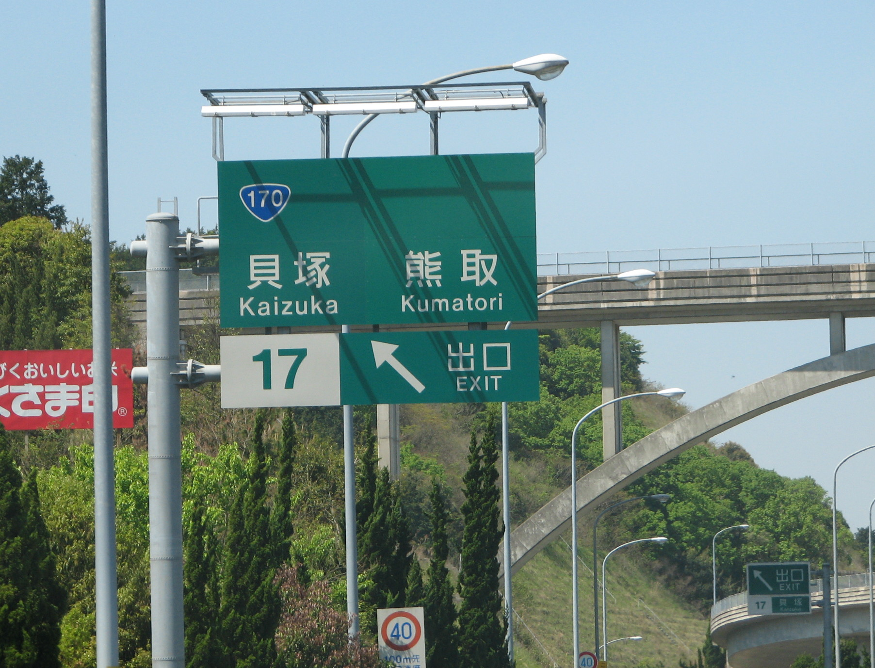 Kaizuka IC